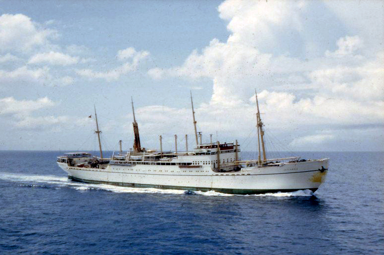 M/S 'Jutlandia', of East Asiatic Company, Copenhagen